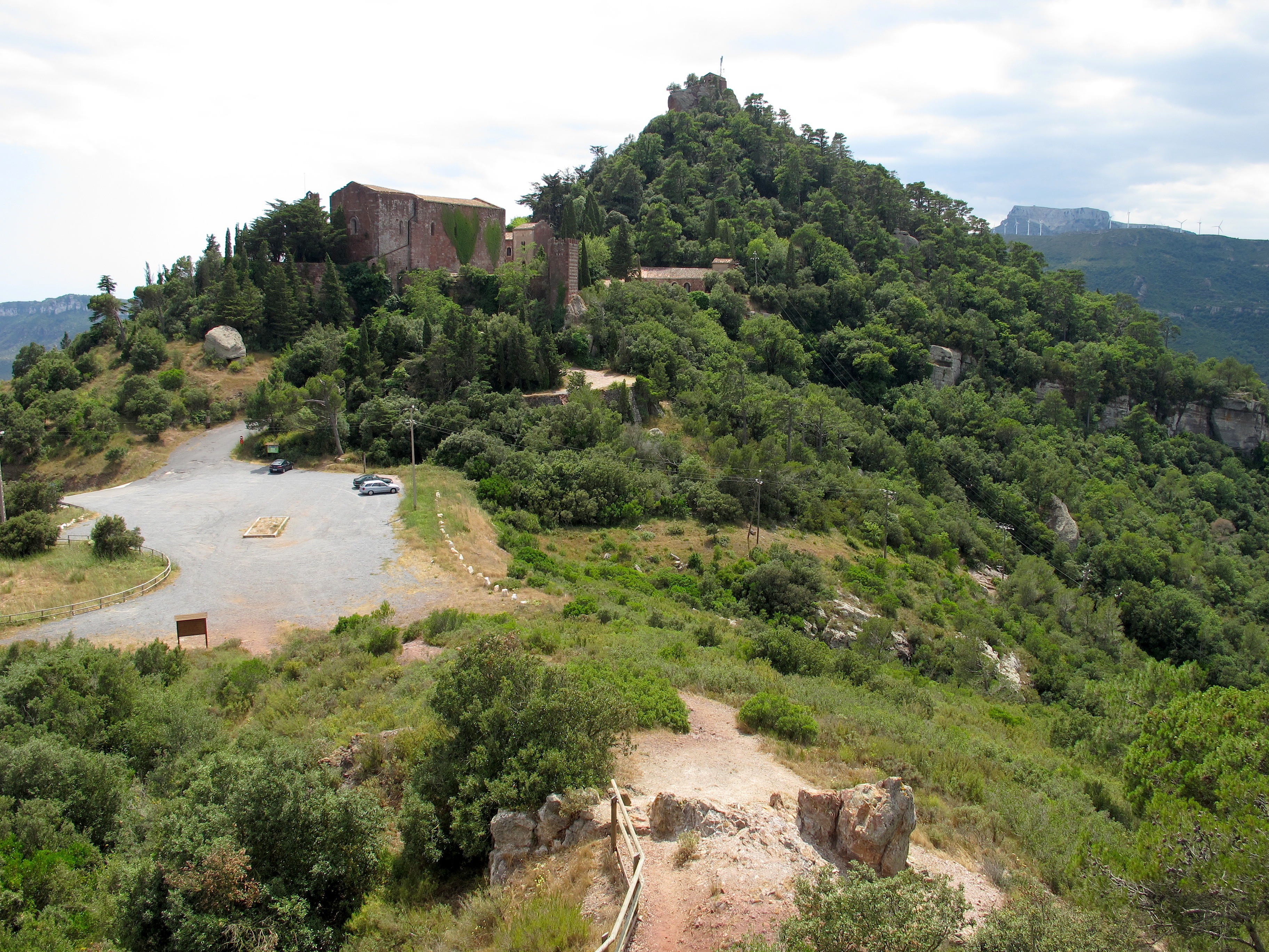 Castell-monestir d'Escornalbou (Catalonia, Spain): View from the viewpoint on the opposite hill